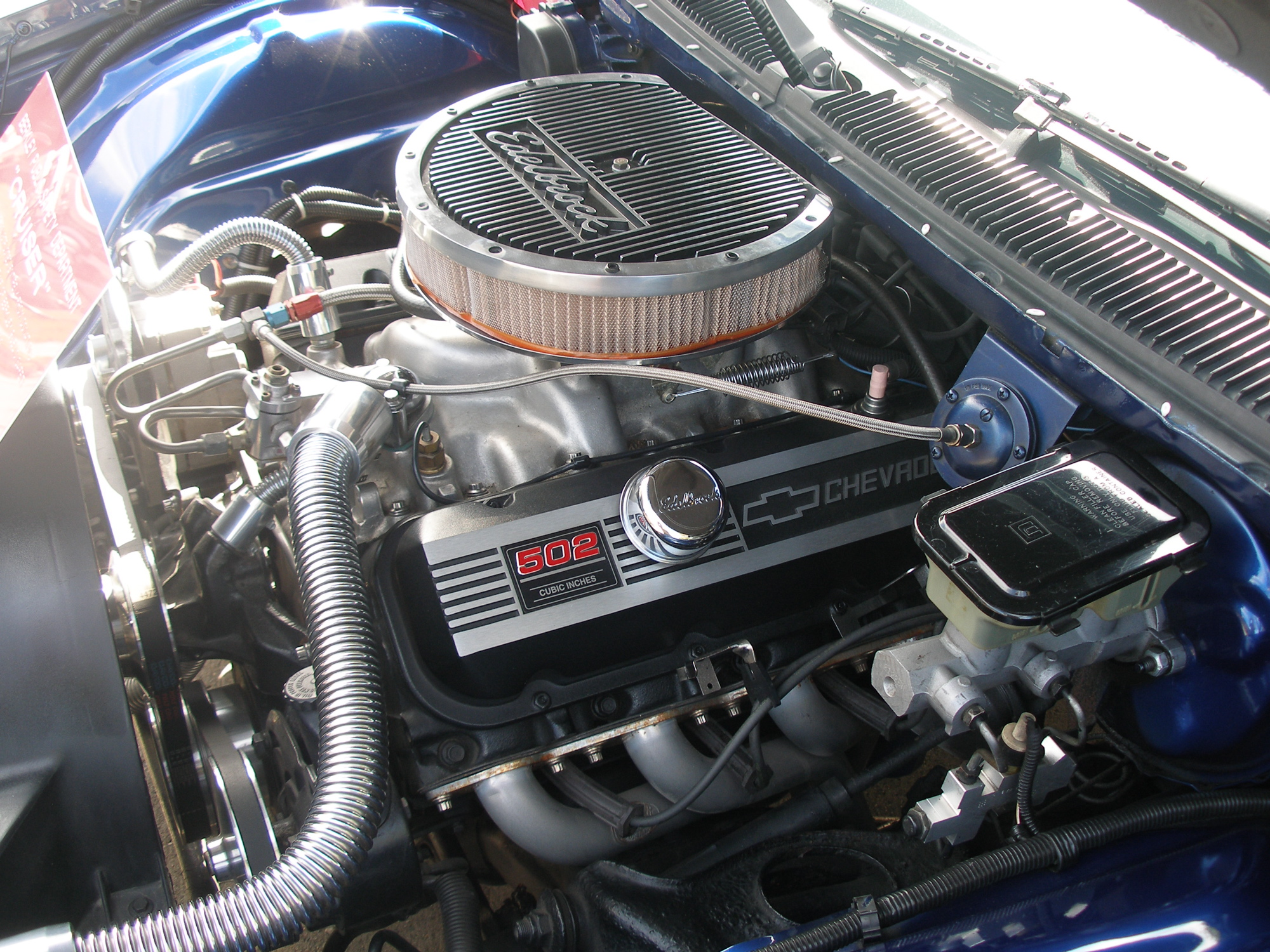 A 502 CID chevy V8 in a custom built police cruiser used by the Berkely Police Department, in Berkley, Michigan USA (3 miles north of Detroit)